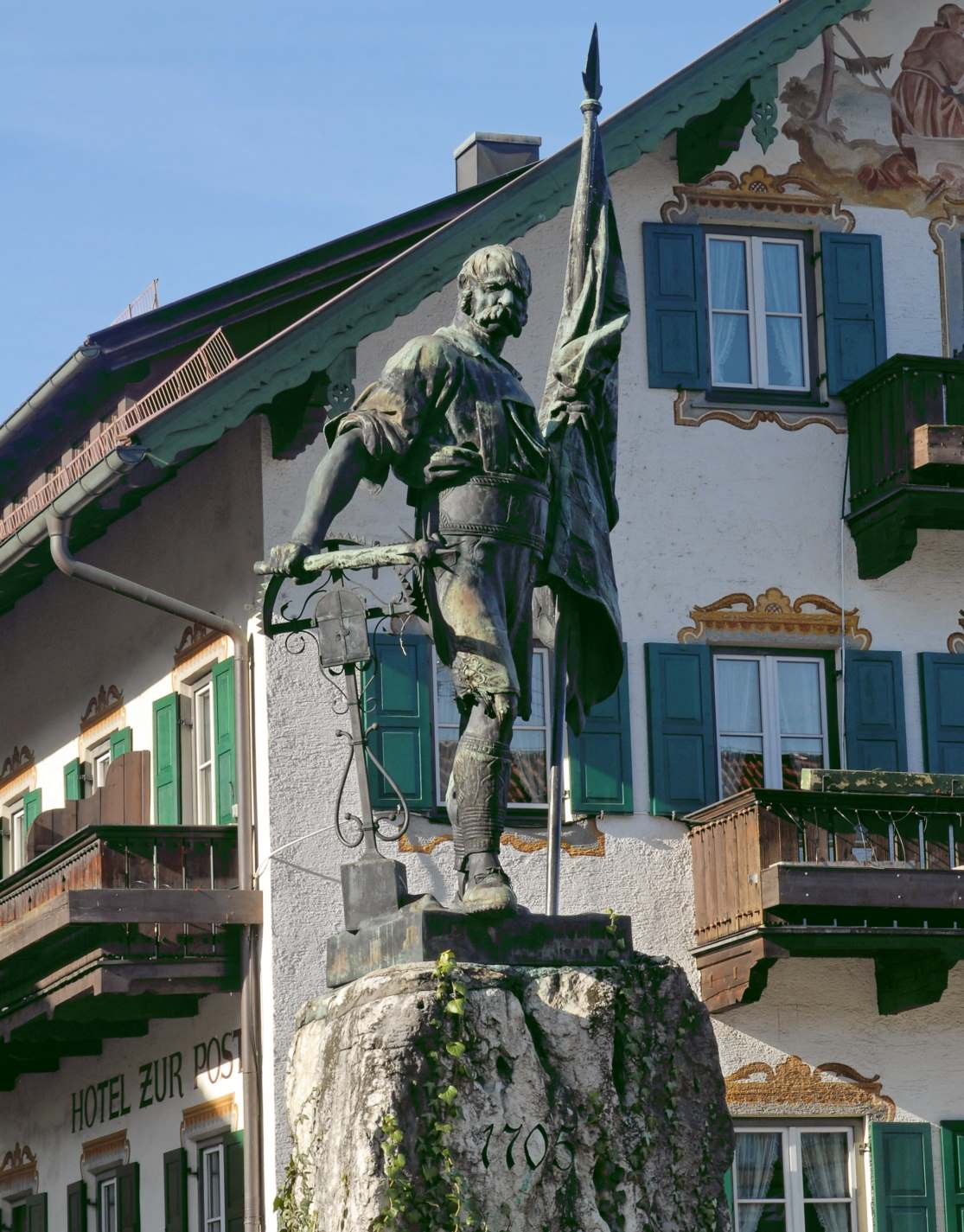 Monument for the local hero called "Schmied von Kochel"